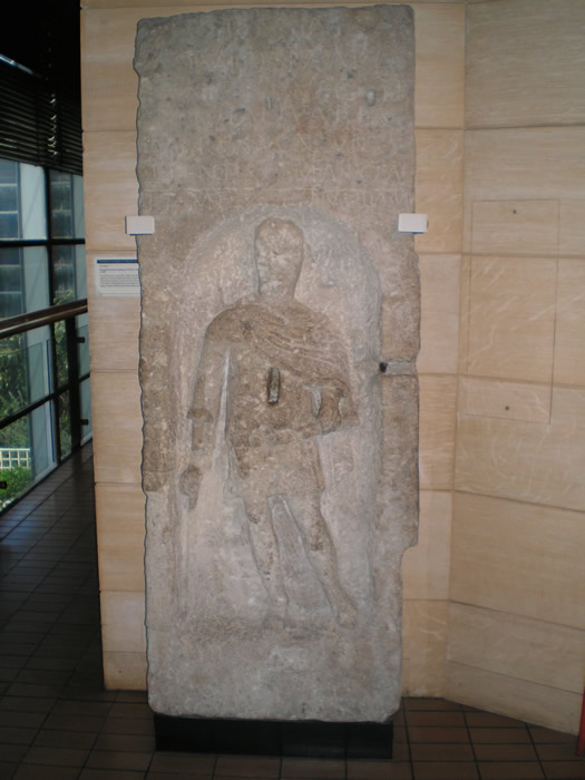 Roman tomb stone of Vivius Marcianus (Museum of London)